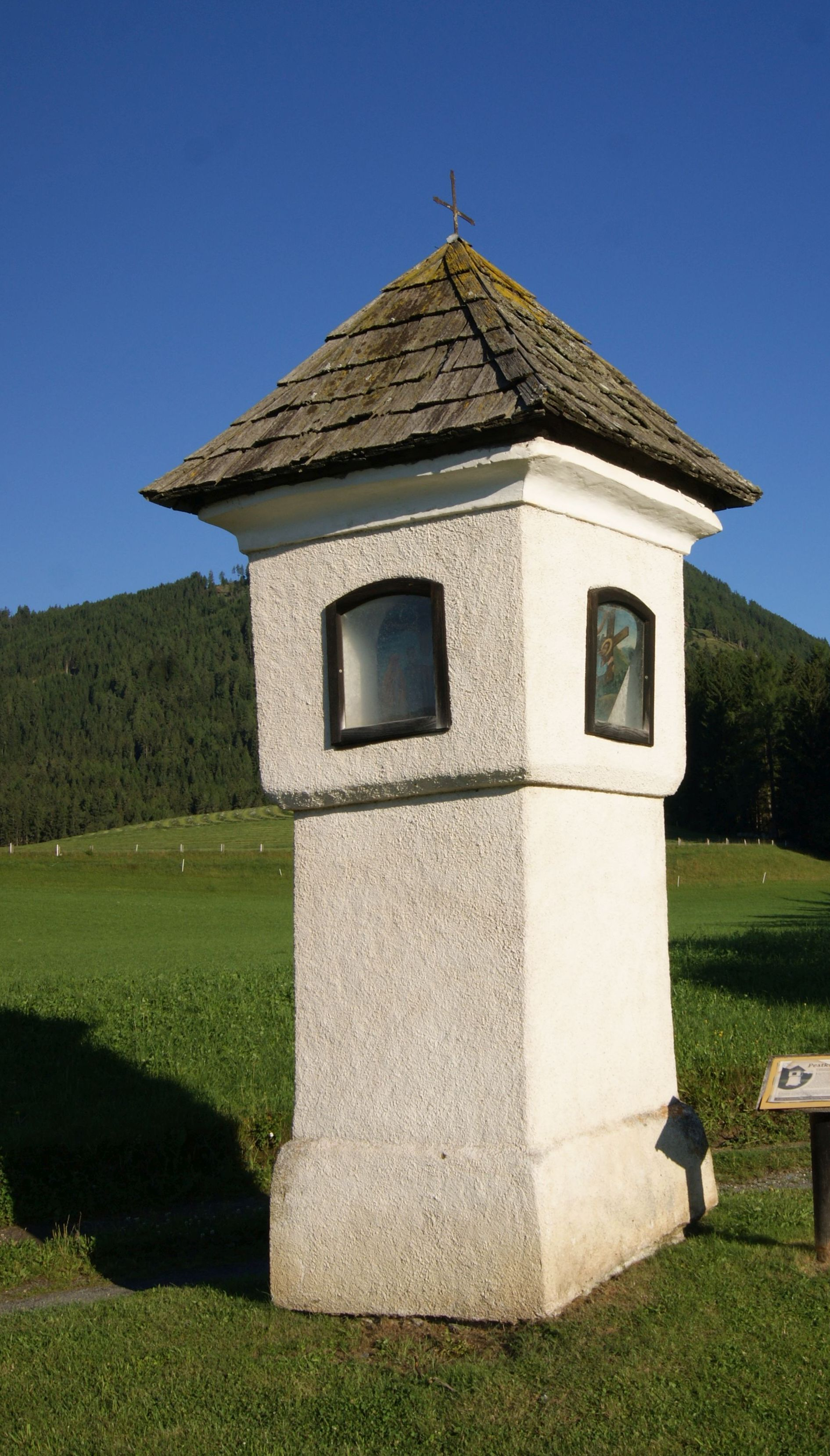 Plague column in Zeutschach, Styria, Austria.